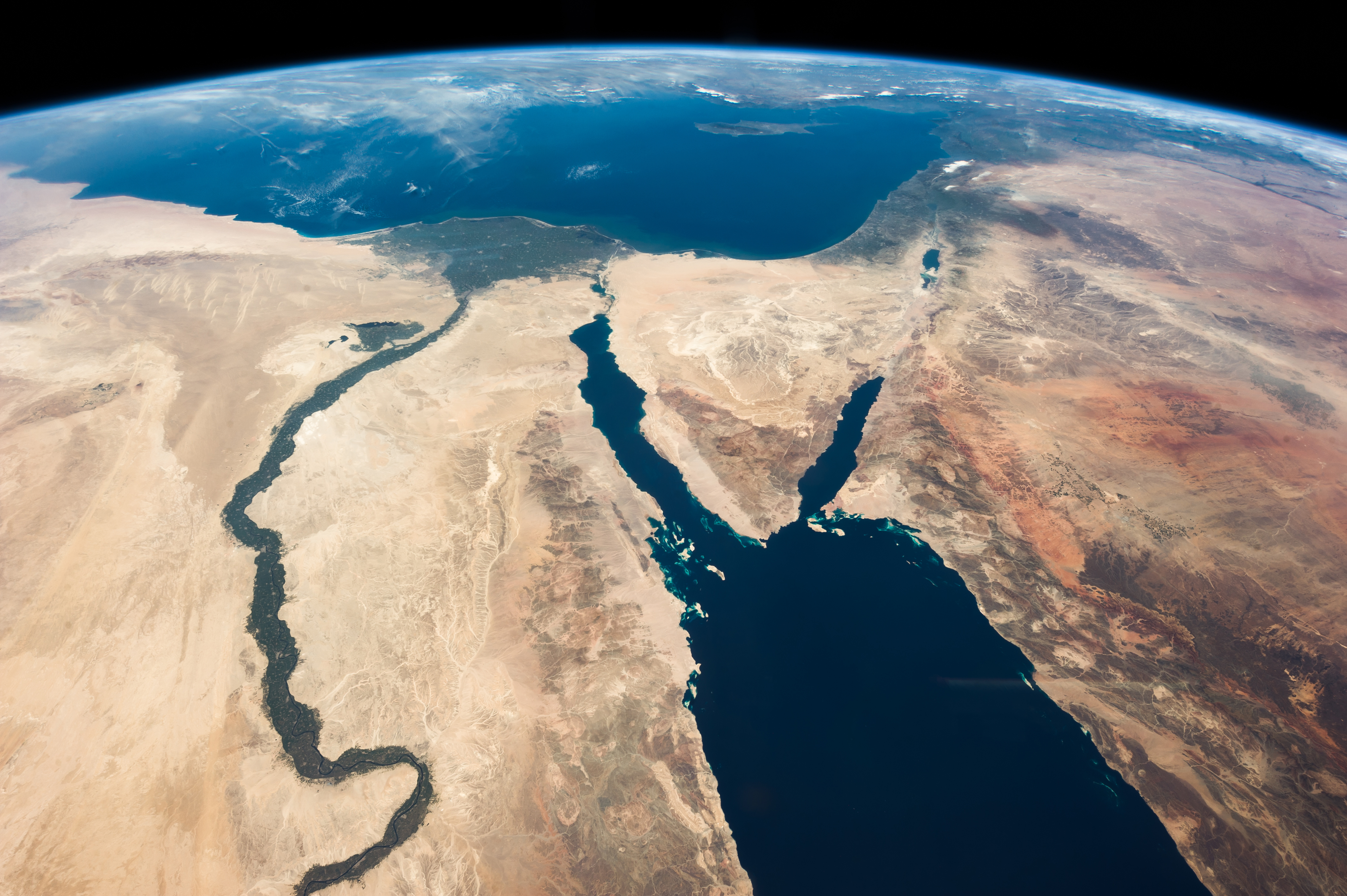 "The Nile and the Sinai, to Israel and beyond. One sweeping glance of human history." Caption by astronaut Chris Hadfield on board the International Space Station. ISS Crew Earth Observations: ISS035-E-007148 Identification Mission ISS035 (Expedition 35) Roll E Frame 007148 Camera Camera Focal Length 24 mm Camera NIKON D3S Quality Percentage of Cloud Cover 0-10% Nadir What is Nadir? Date 2013-03-20 Time 09:02:43